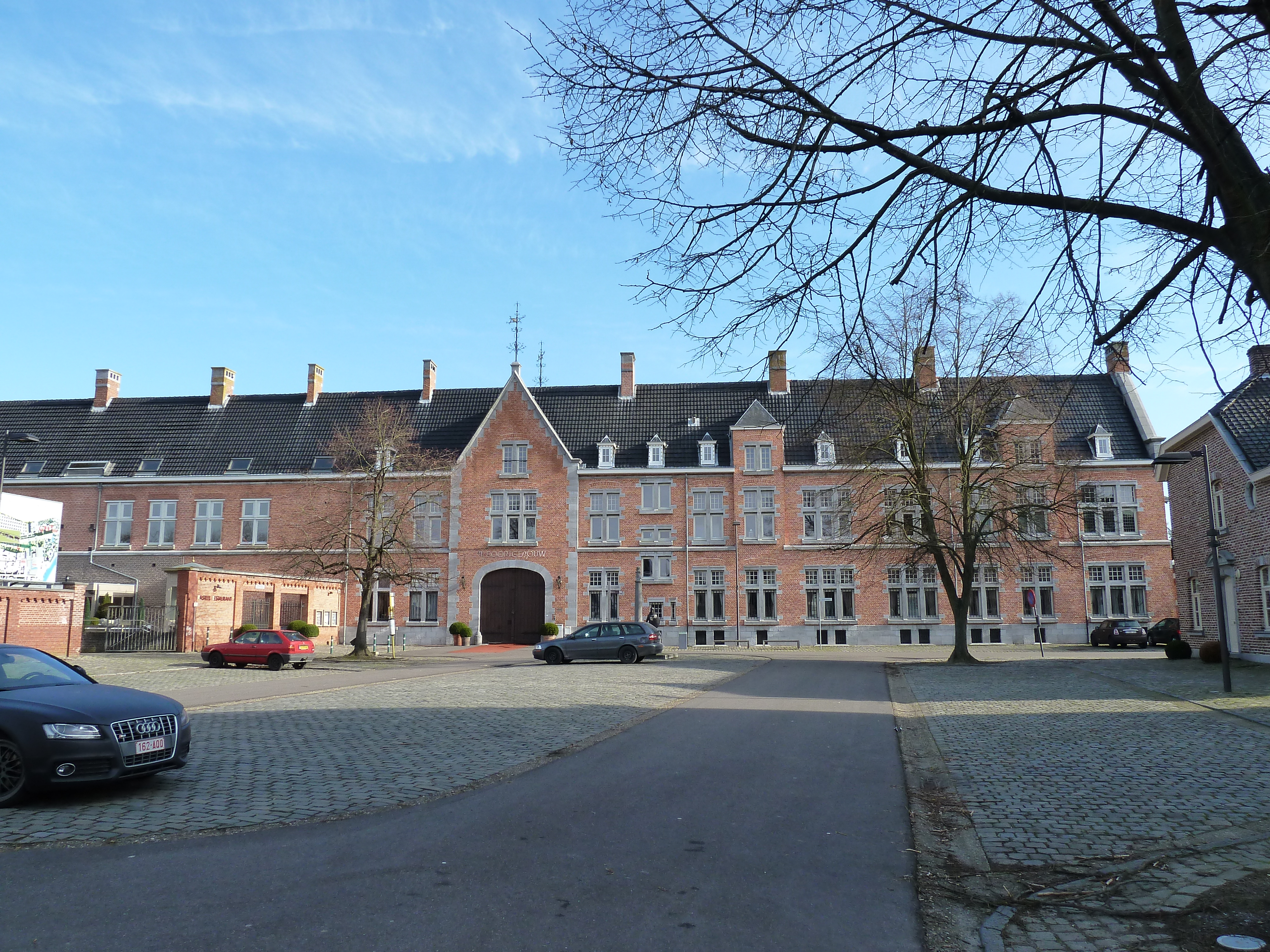 Aspremont-Lynden Castle, Oud-Rekem, Belgium